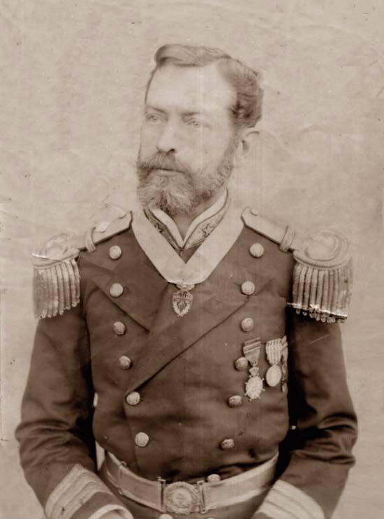 Demétrio Cinatti (1851-1921)